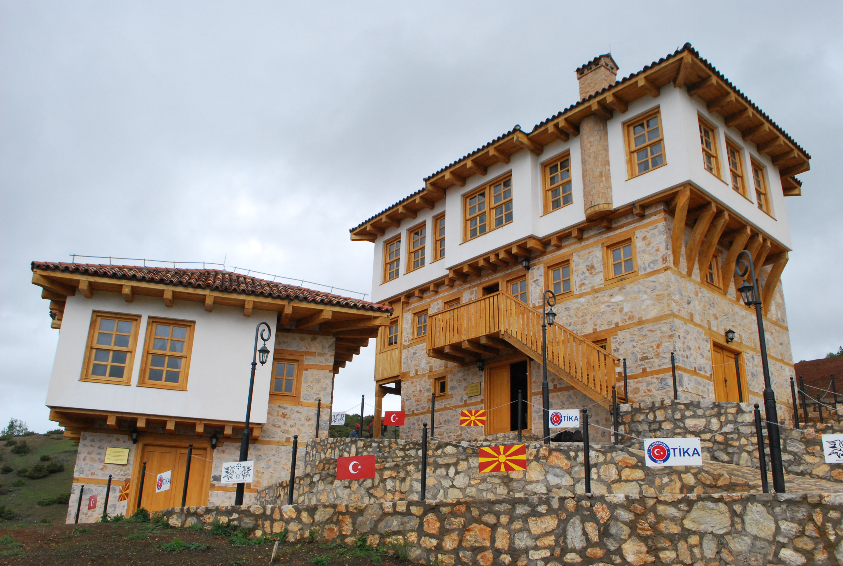 Ali Riza Efendi memorial house in Kodzadzik, Macedonia